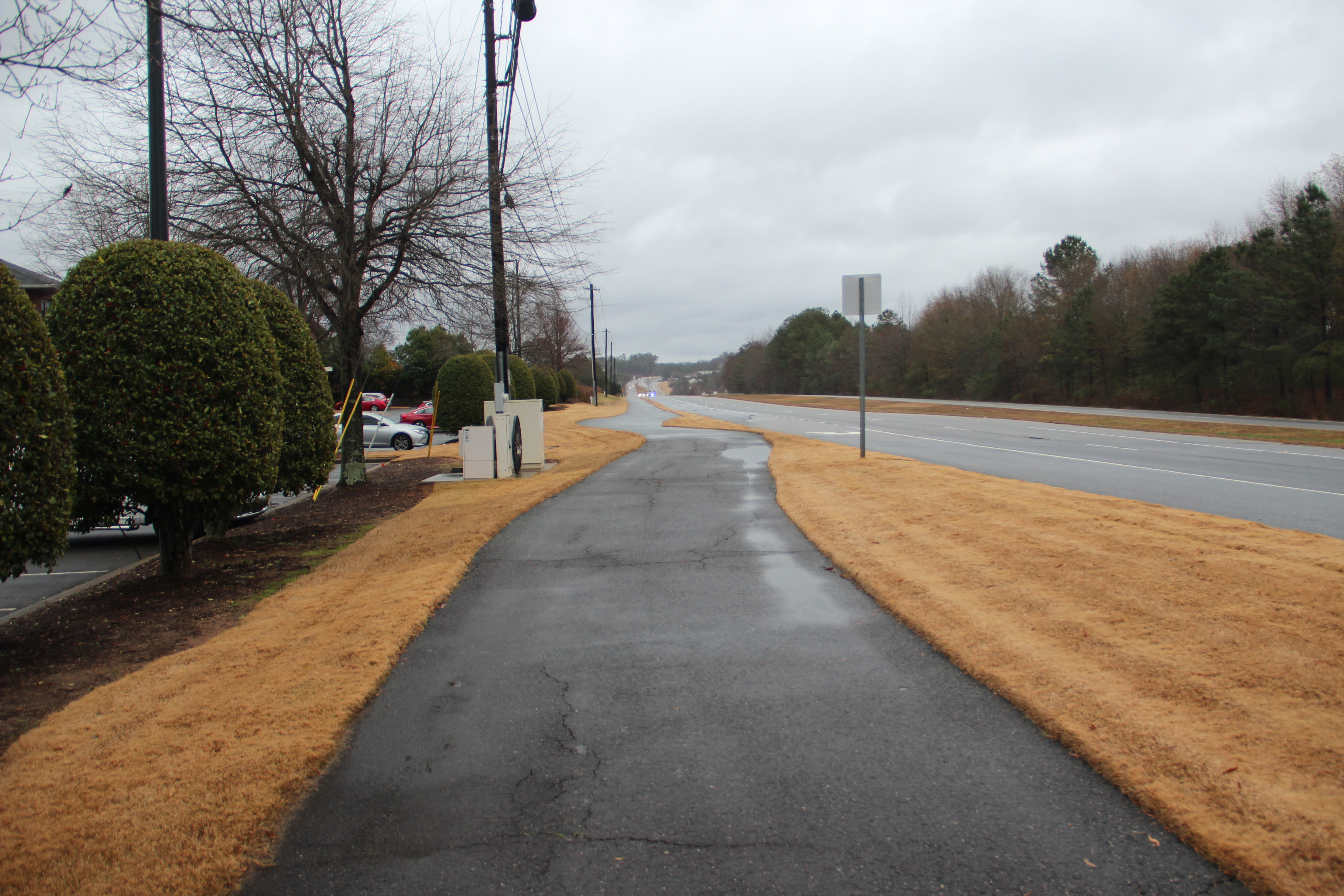 Western Gwinnett Bikeway along Georgia State Route 141